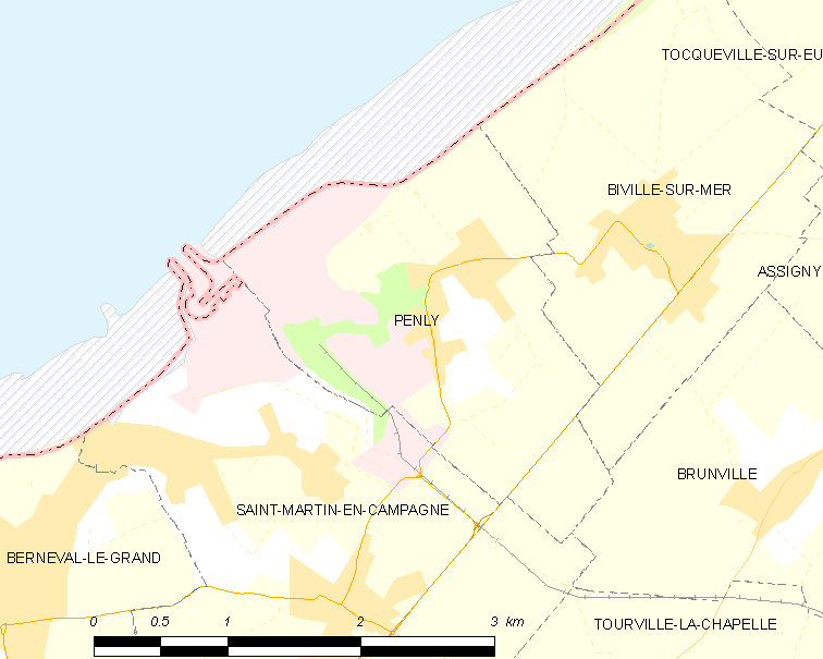 Map of French municipality Penly